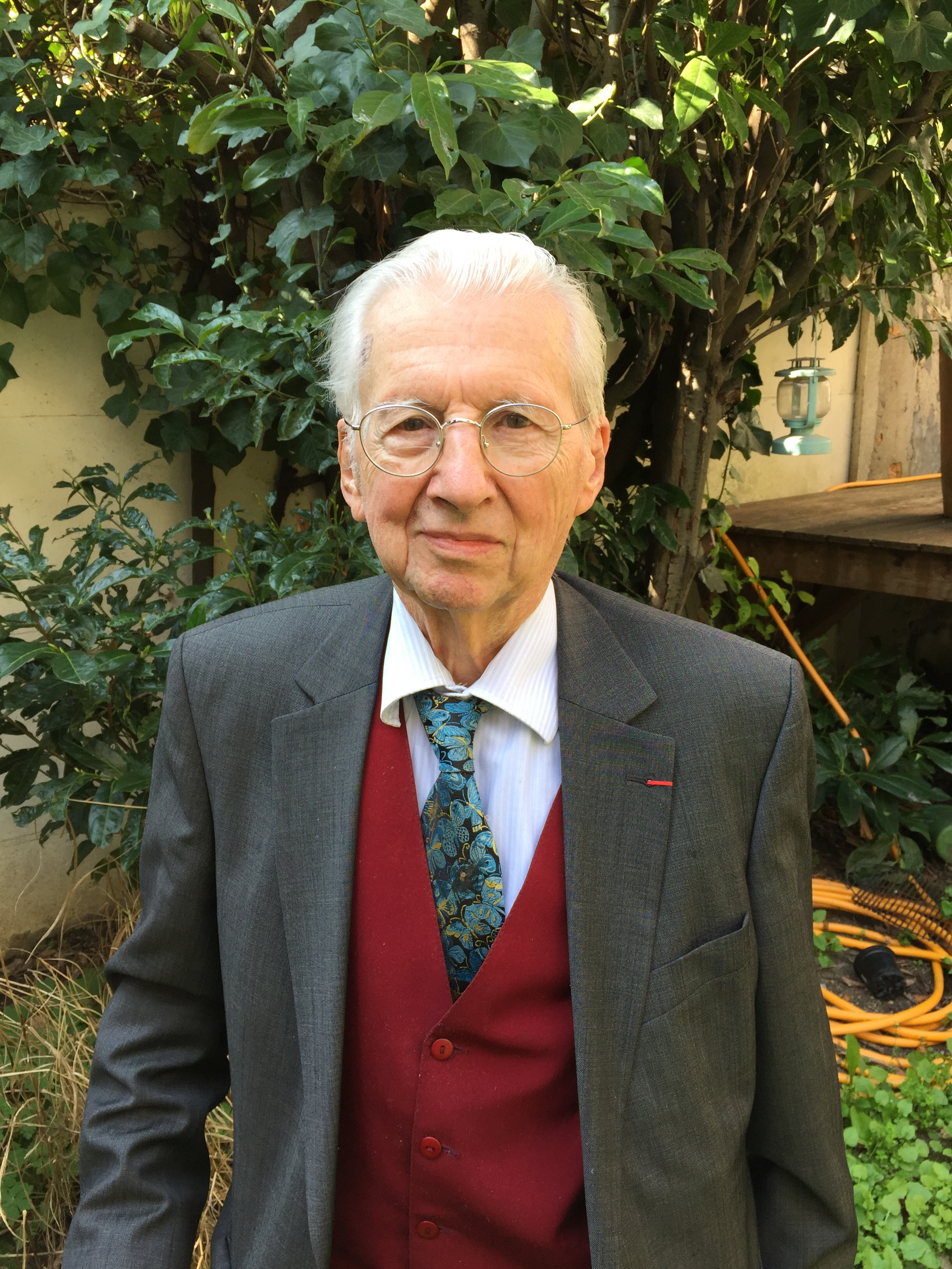 Pierre Riché (1921-2019), professor emeritus of Medieval History at the University of Paris-X (Nanterre) . Photo : march 2017.